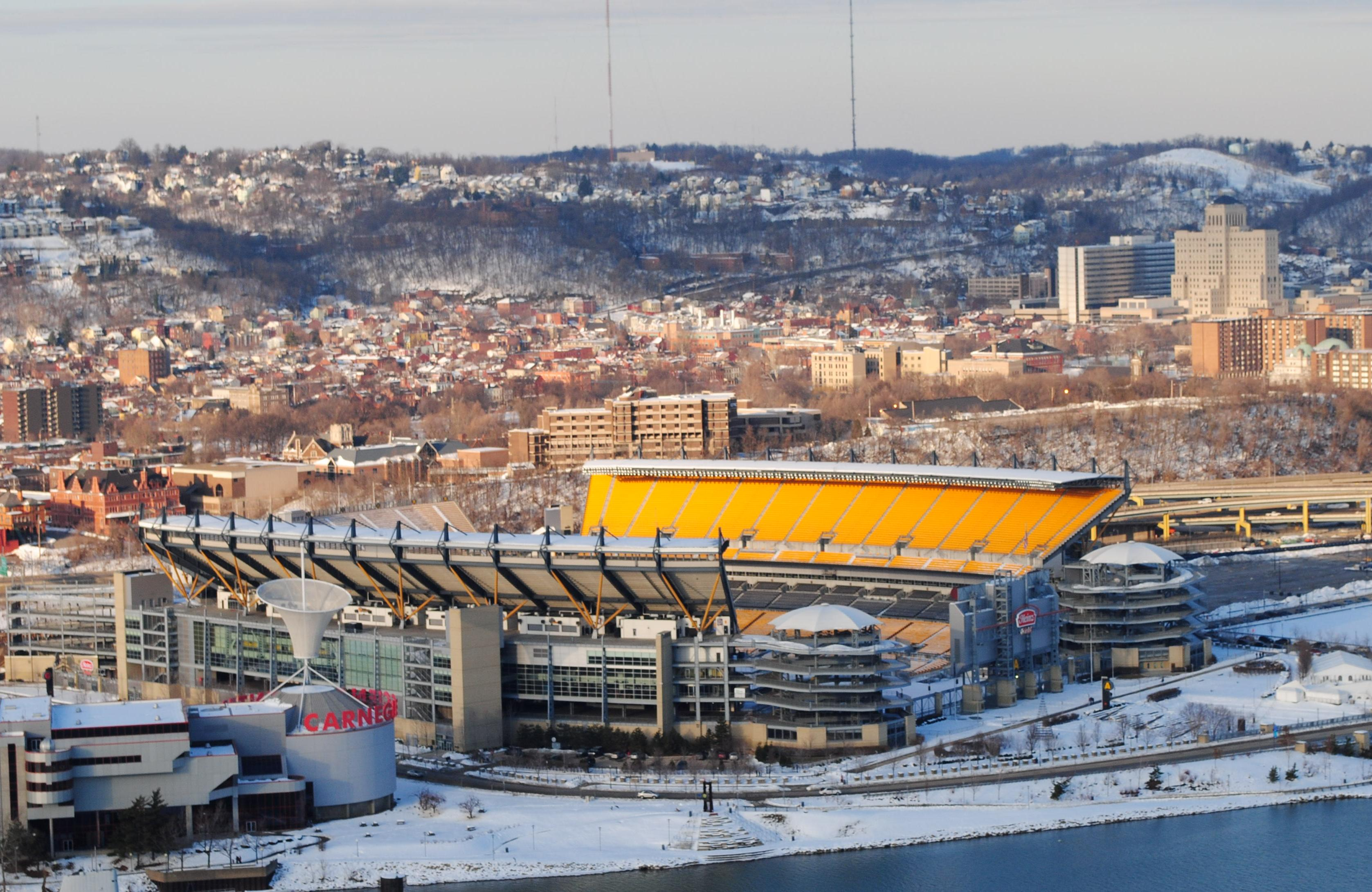 Heinz Field, Pittsburgh Steelers and Pitt Panthers home ground